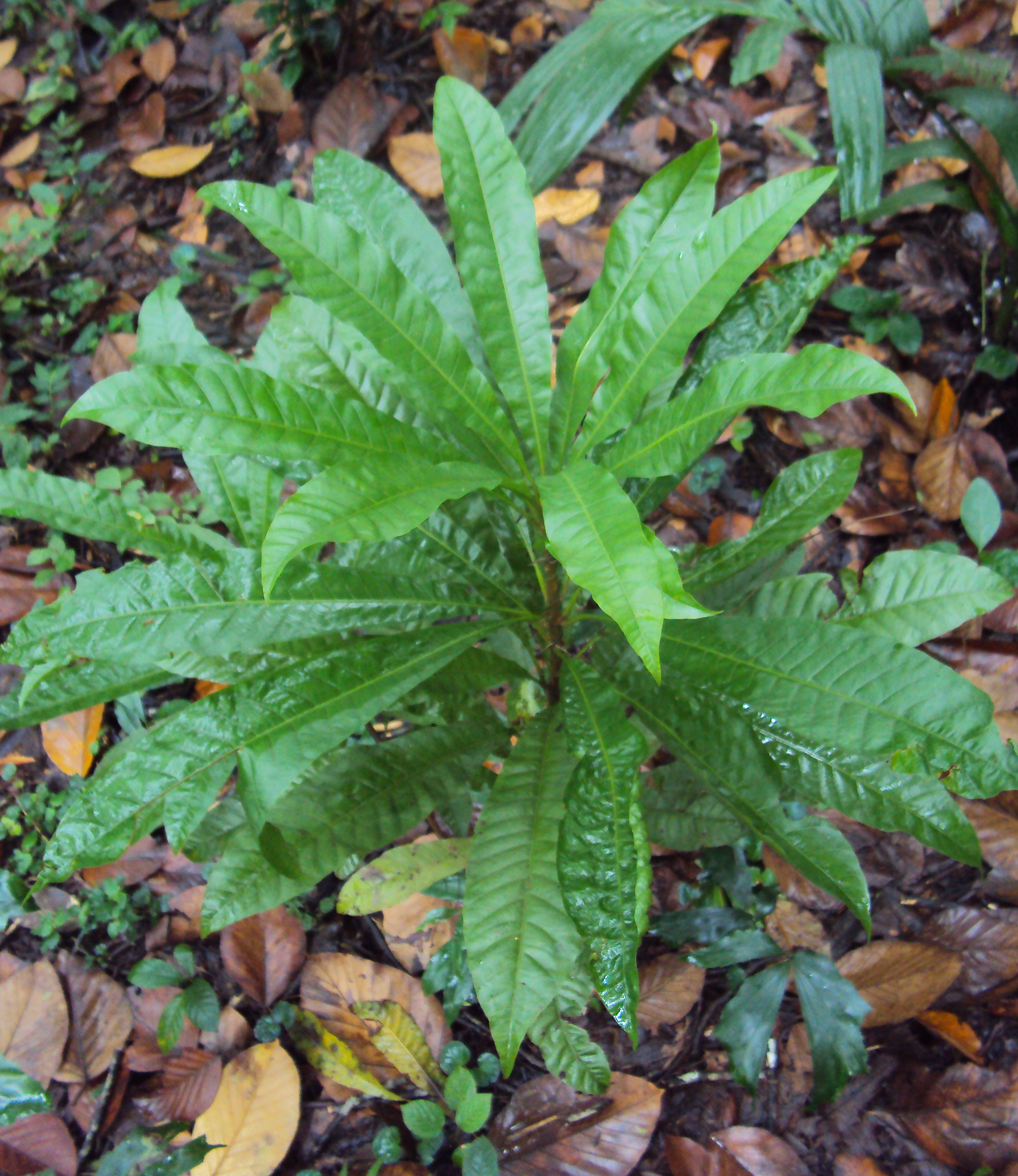 Pouteria campechiana small plant - മുട്ടപ്പഴം